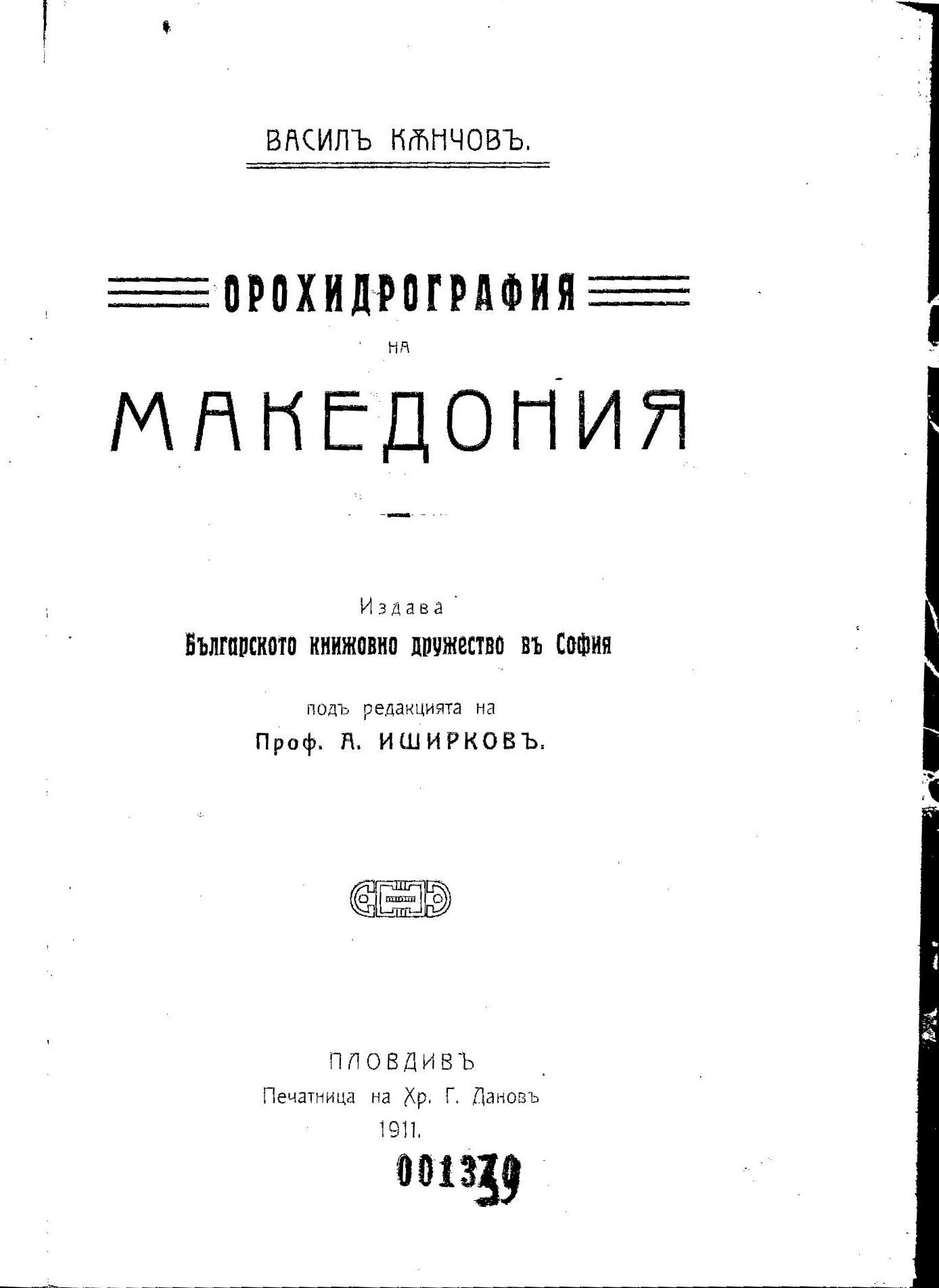 Orohydrography of Macedonia Page 1